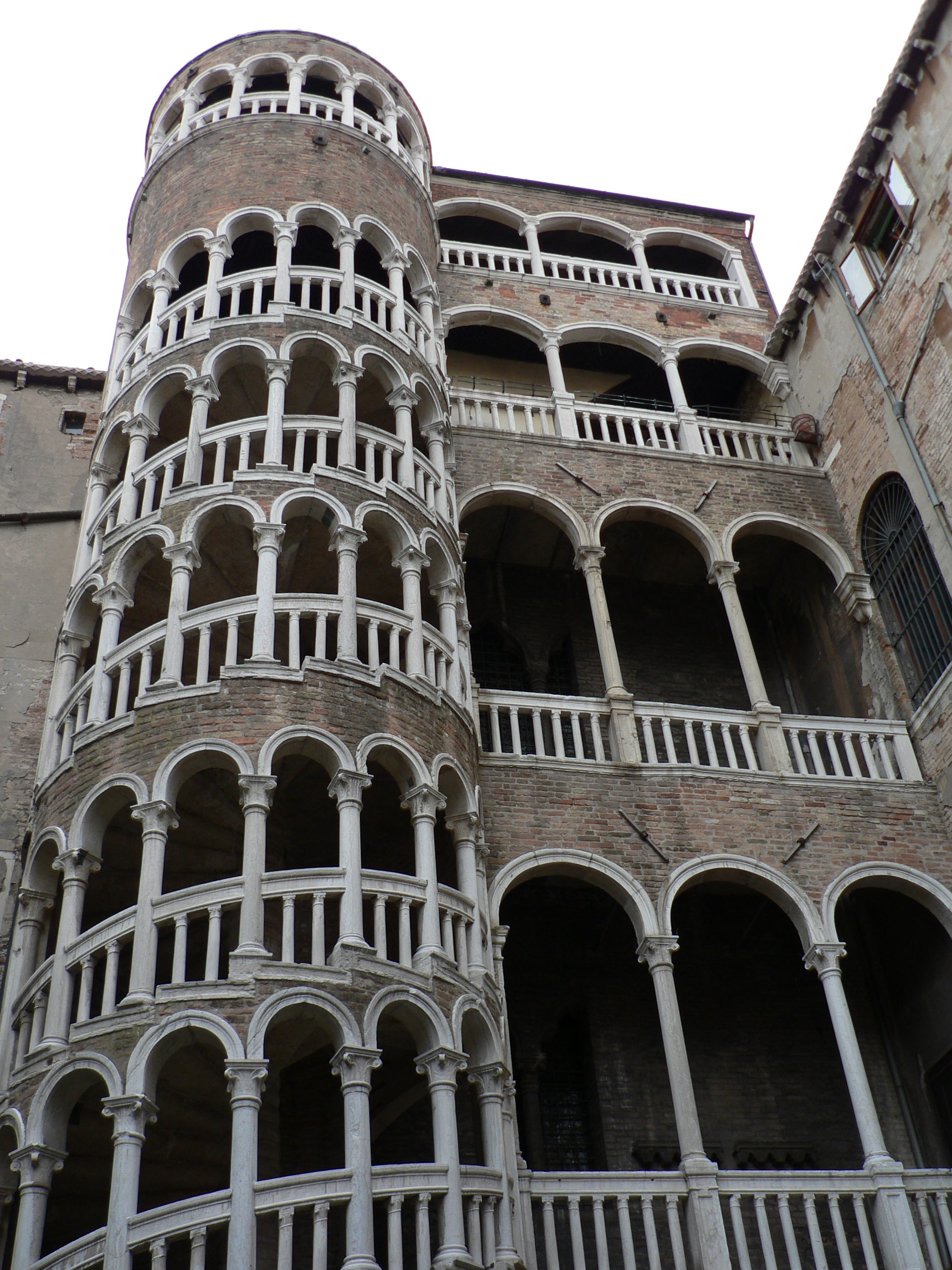 The Renaissance style "Contarini del Bòvolo" (i.e. "of the snail") palace in Venice, Italy (1499).